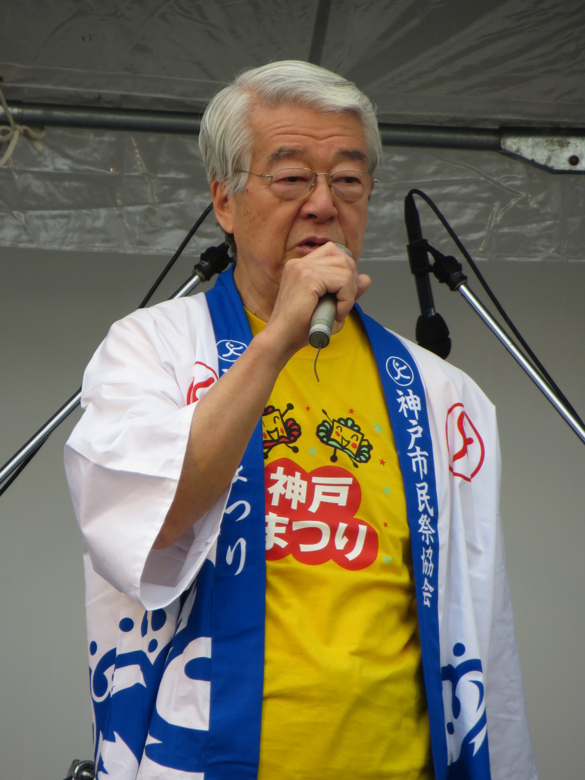 Tatsuo Yada (mayor of Kobe, Hyōgo) in Kobe Matsuri 2013.